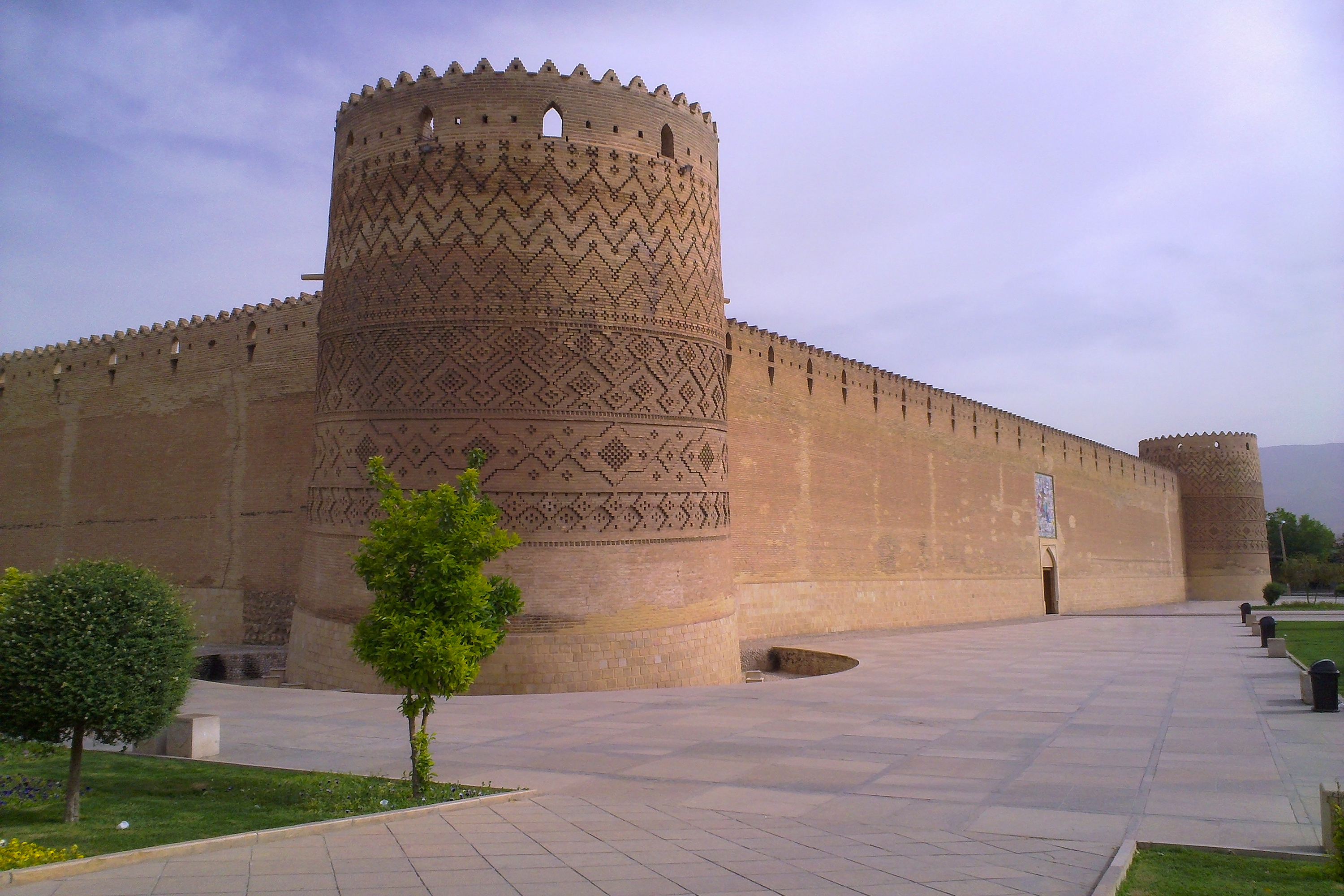 The Karim Khan Castle (Persian: ارگ کریم خان Arg-e Karim Khan) is a citadel located in the downtown Shiraz, southern Iran. It was built as part of a complex during the Zand dynasty and is named after Karim Khan, and served as his living quarters. In shape it resembles a medieval fortress.